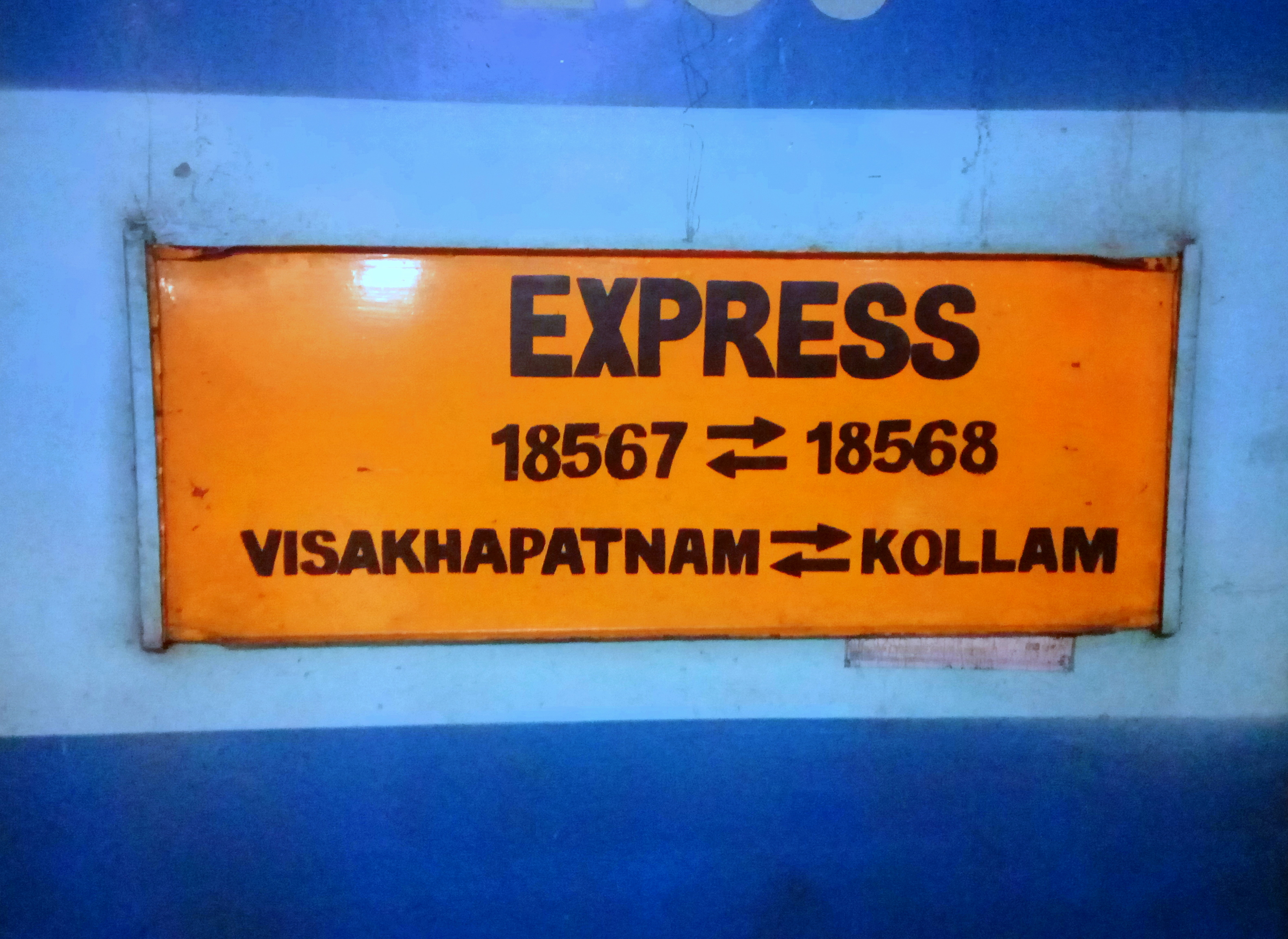 It is a weekly express train connecting city of Kollam in Kerala with Vizag in Andhra Pradesh